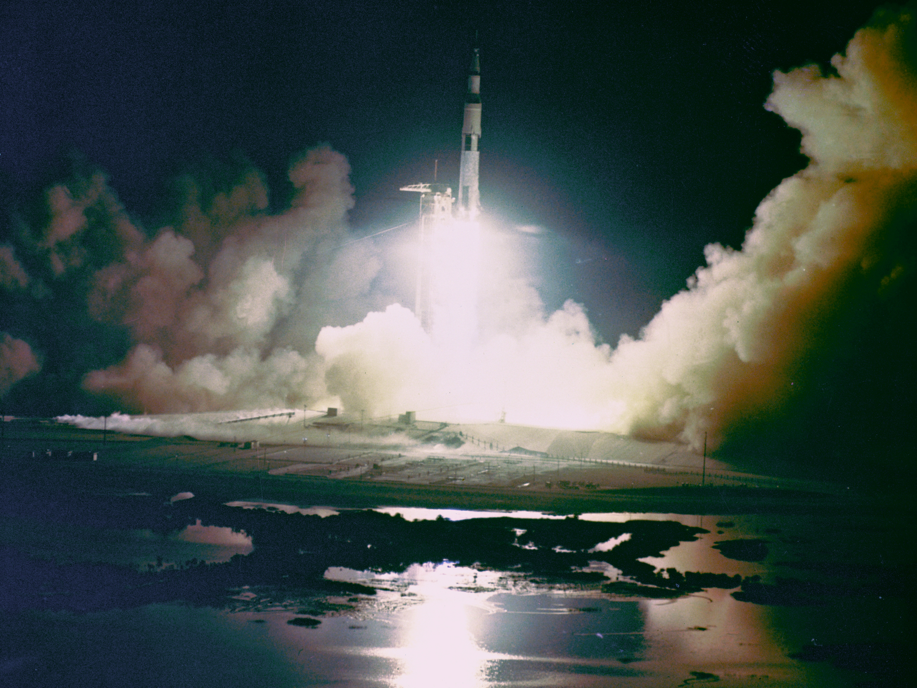 Liftoff of the Apollo 17 Saturn V Moon Rocket from Pad A, Launch Complex 39, Kennedy Space Center, Florida, at 12:33 a.m., December 17, 1972. Apollo 17, the final lunar landing mission, was the first night launch of a Saturn V rocket.